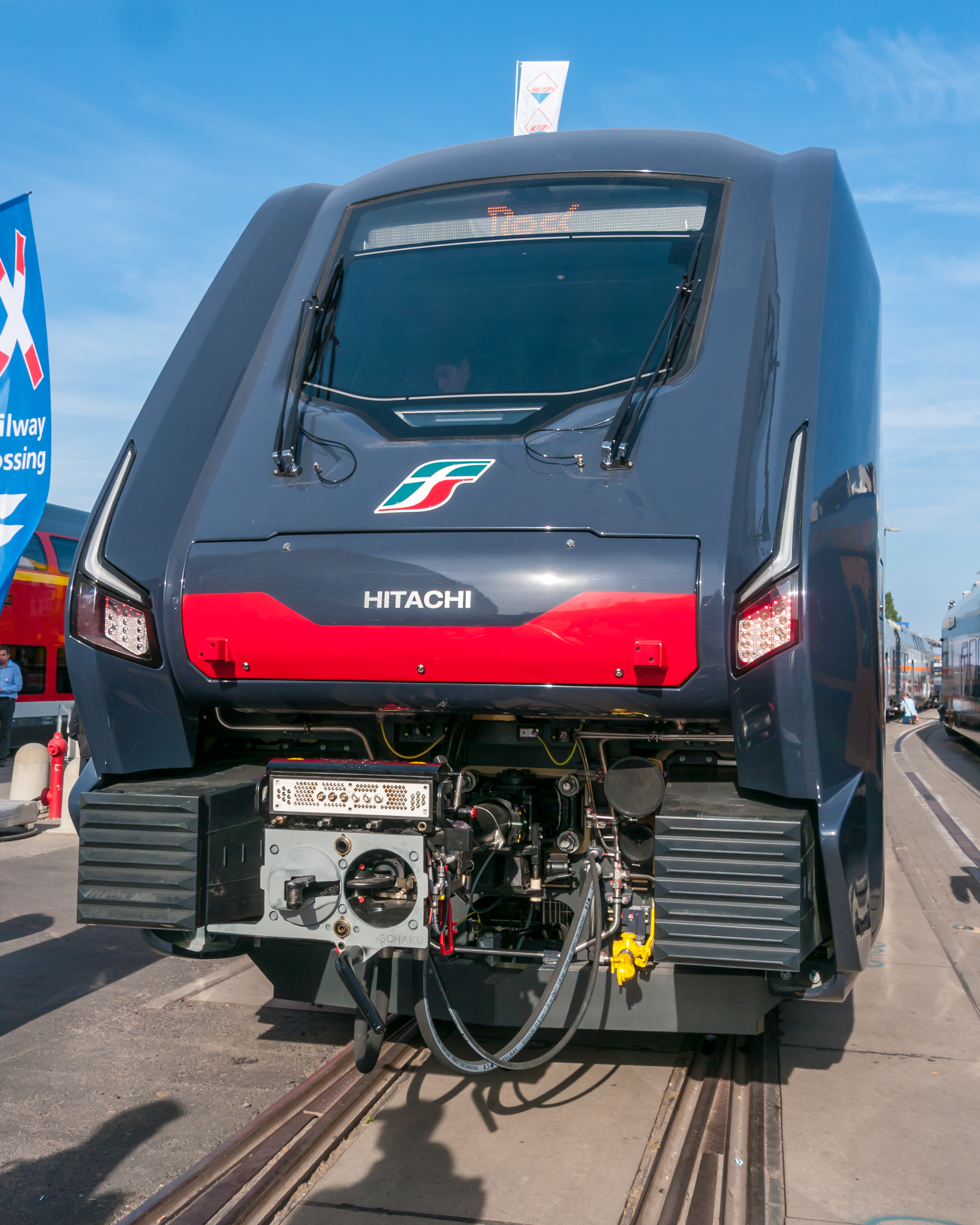 Front view of Hitachi Rock (or Caravaggio) for Trenitalia at Innotrans 2018 fair in Berlin, Germany